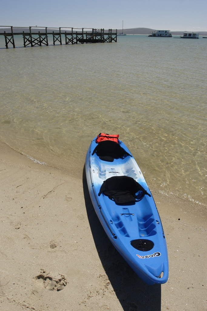 My Sea Kayak, a sit-on version.